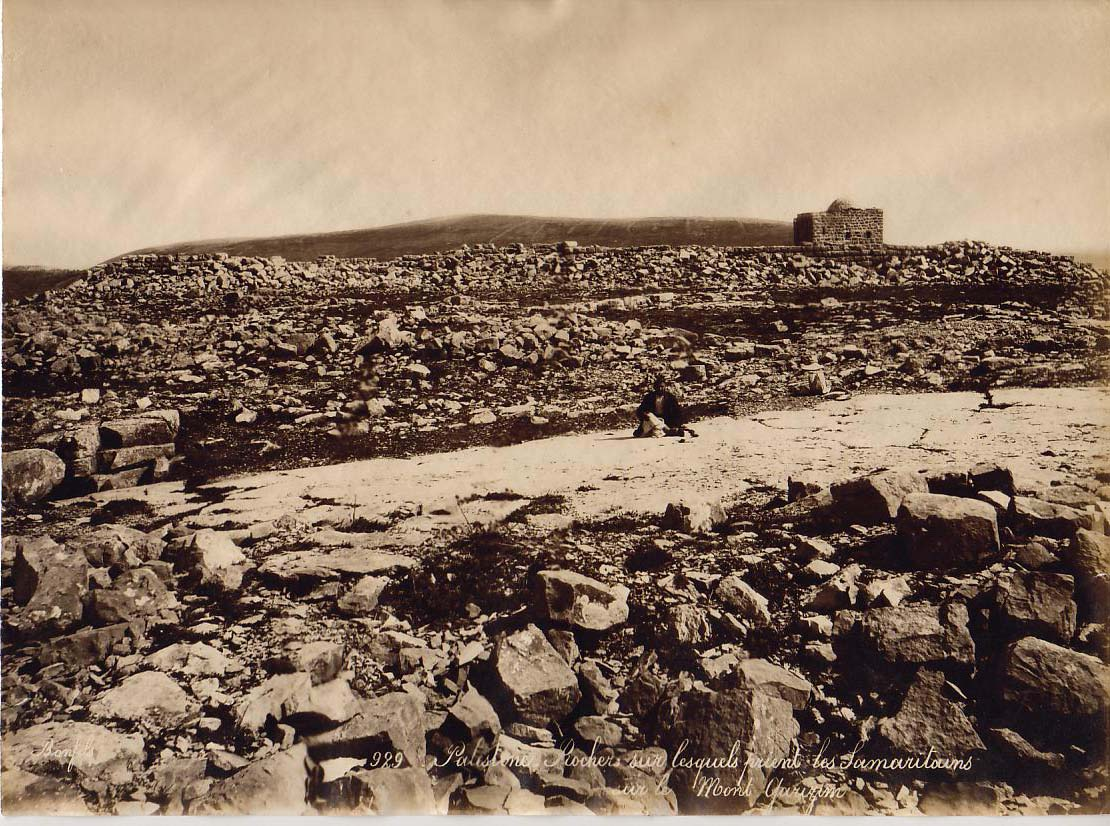 Samaritan sanctuary, Mount Gerizim